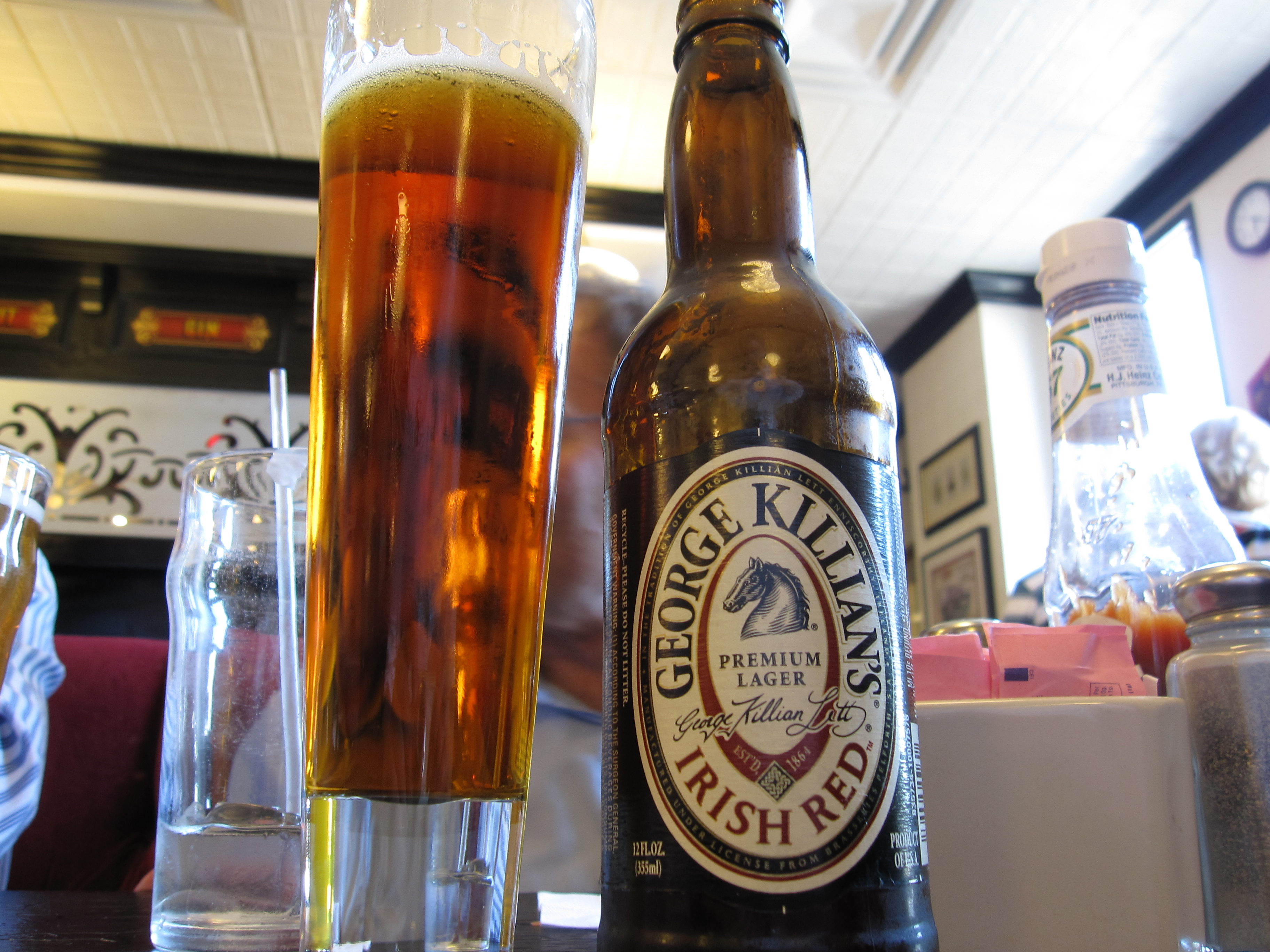 The beer selection at Dulles Airport wasn't all that good, but I tried this Irish Red premium lager brewed by Coors while waiting for the flight to Florida. It was a mild beer, with some malt aroma and a slightly roasted bitter taste. Nothing exciting.